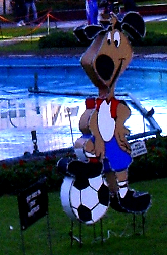 Reproduction of Striker, the 1994 FIFA World Cup mascot